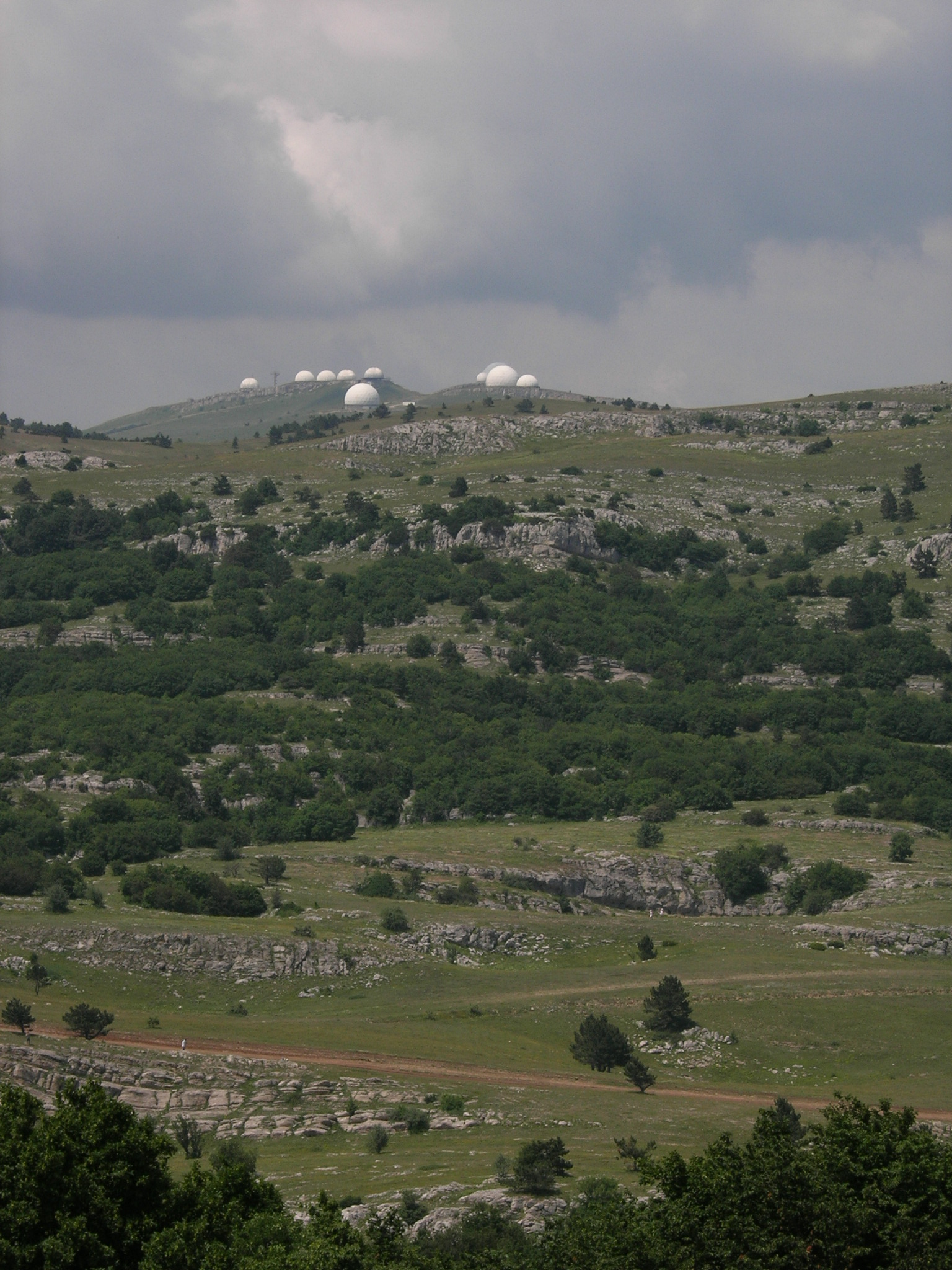 View from Ay Petri toward Bakhchisarai